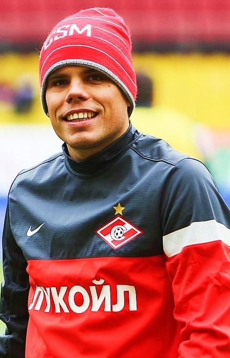 Ognjen Vukojević